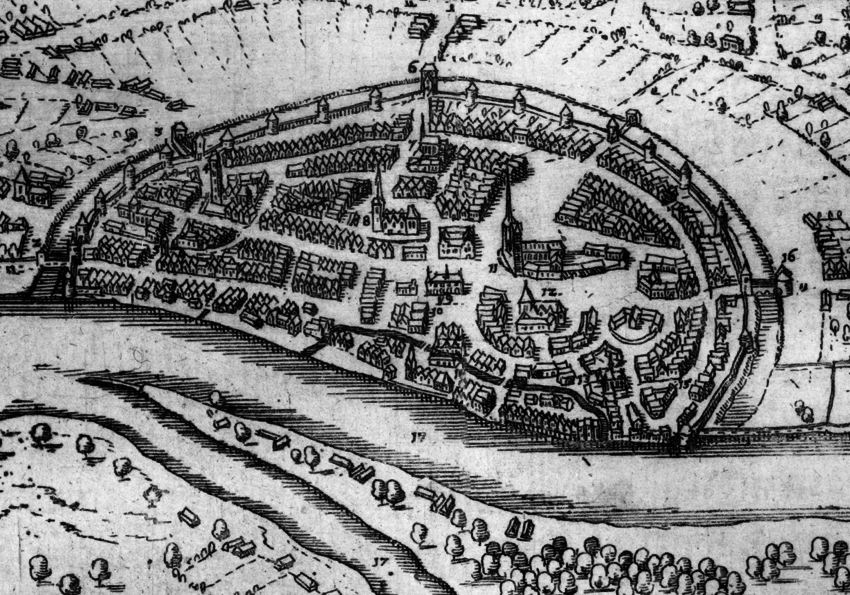 Detail of a map showing the city of Bremen (Germany) in the 13th century, made by Wilhelm Dilich and published 1604 in Urbis Bremae et praefecturarum, quas habet, typus et chronicon.